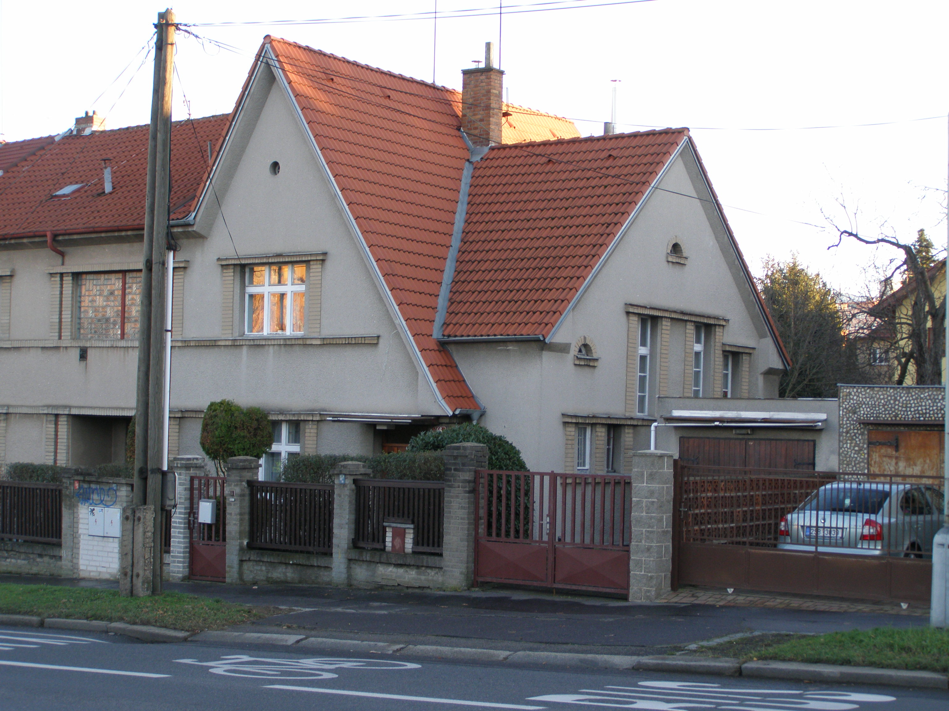 Family villa at the address: 142 00 Praha 4 - Lhotka, Zálesí 46/56, Czech Republic. In Protectorate lived here significant participant in the anti-Nazi resistance and Academic Secretary of the YMCA JUC. Rudolf Mareš (* 1909 - † 1944) and his wife Ludmila and one-year son Tomáš (Thomas) with his mother in law and father in law. Here in the spring of 1940 tried the state police (Gestapo) to arrest Mr. Rudolf Mares but Mareš managed to escape. He jumped out of the room through the window and escaped through the garden to the neighboring house.